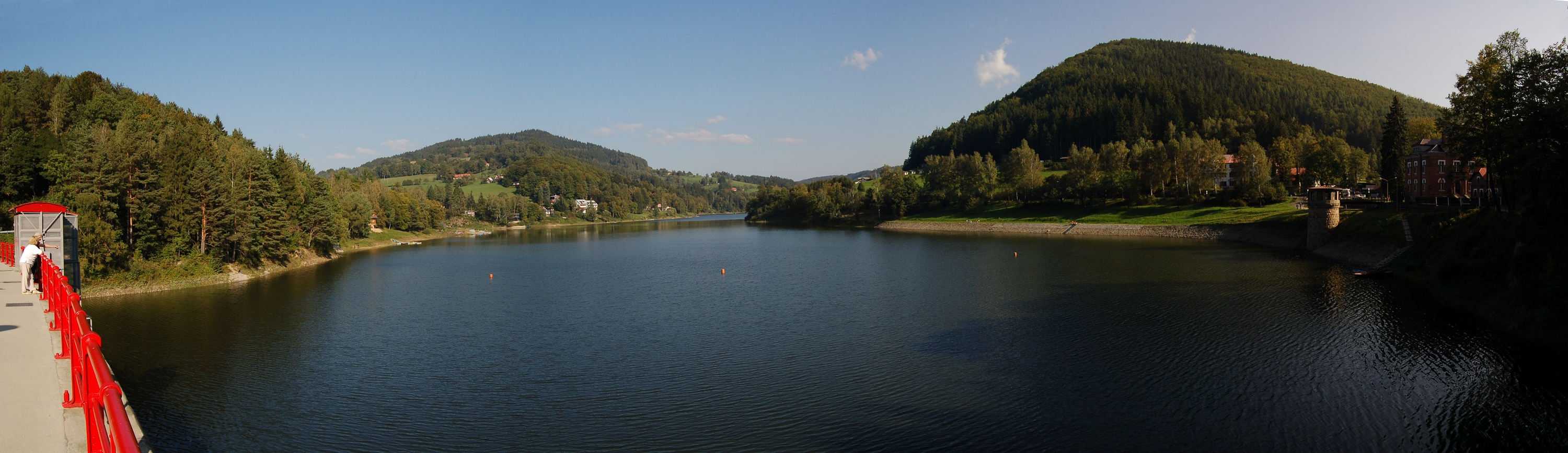 Bystricka reservoir, look from dam, picture taken on 27.9.2006